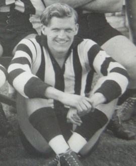 Photograph of Dave Newman from 1944-1945